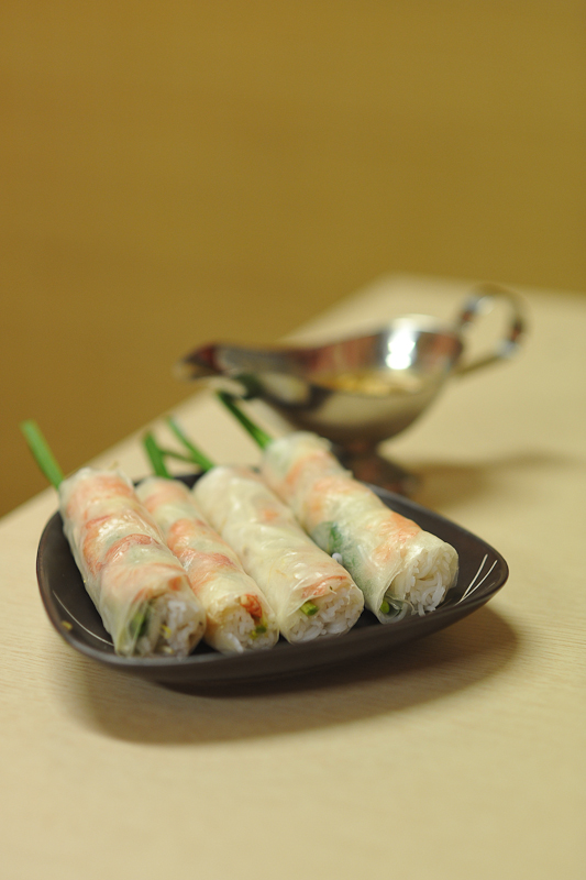 Summer roll